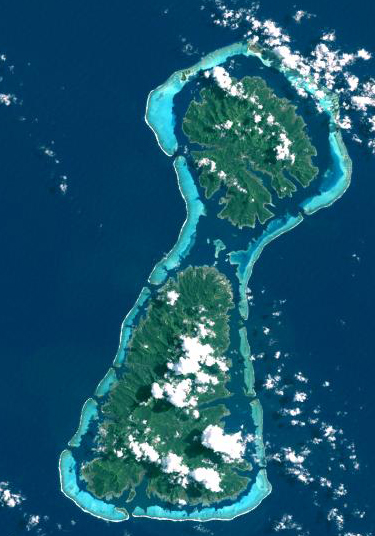 Satellite Image of the Islands of Taha'a and Rai'atea (French Polynesia) in the Pacific Ocean